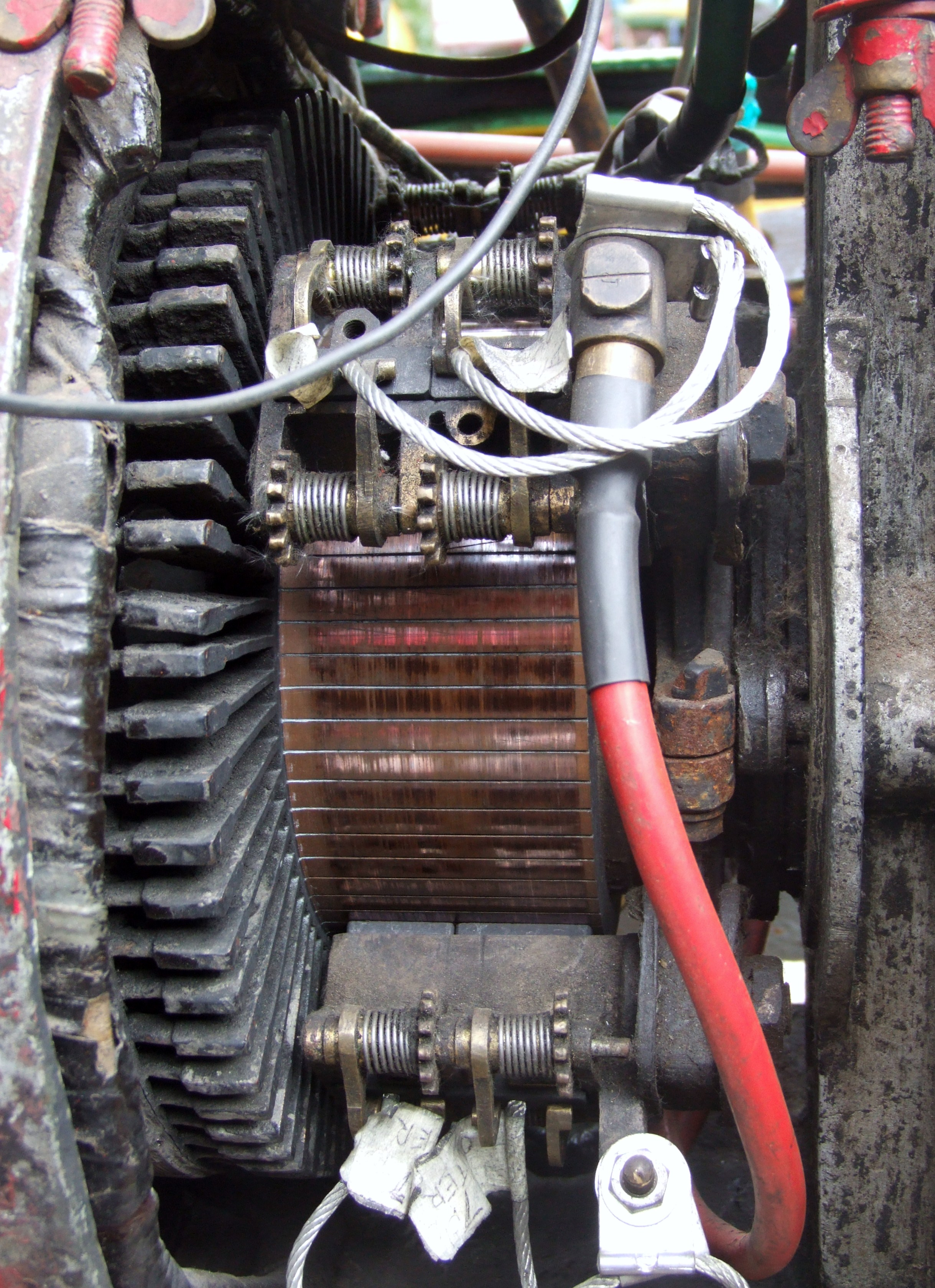 Commutator of the dynamo of the 1923 Tilling-Stevens Petrol-electric chassis at Amberley Museum and Heritage Centre, West Sussex